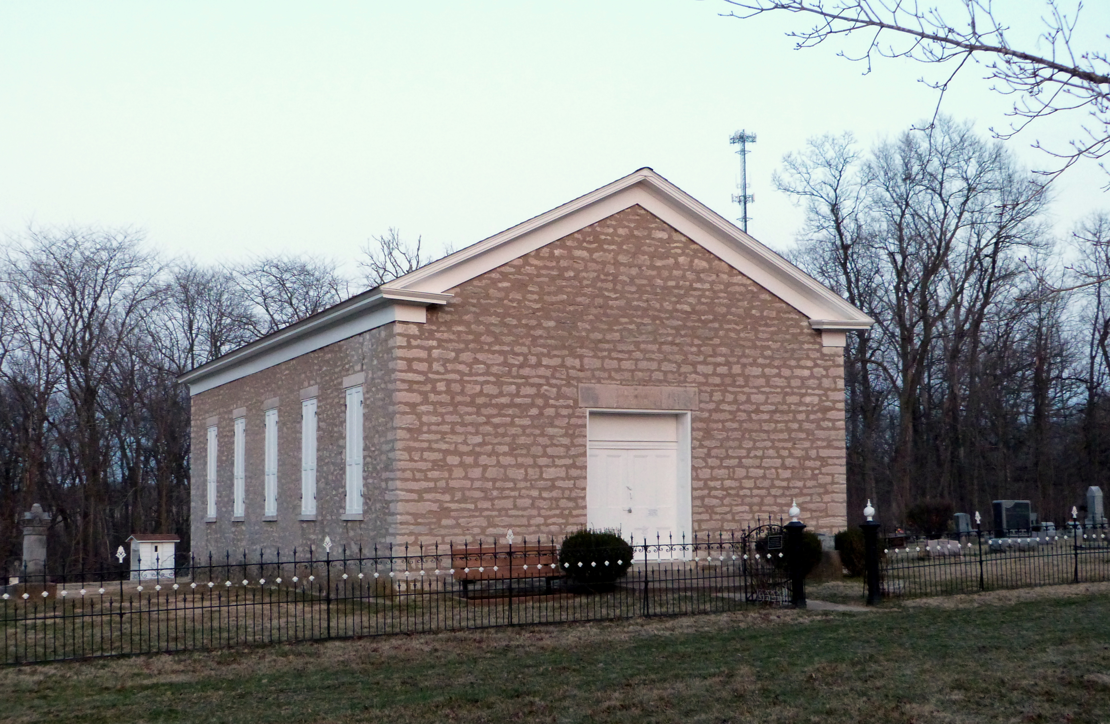 The historic Bethel Church (built 1855), located on 35th Street near Morning Sun, Iowa, United States, is listed on the US National Register of Historic Places. The cemetery fence seen in the photo dates to 1861.